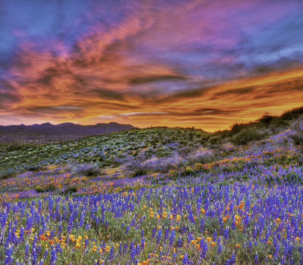 Sunset and spring wildflowers — on the San Carlos Apache Indian Reservation, near Peridot, in Gila County, Arizona. 29 March 2010.